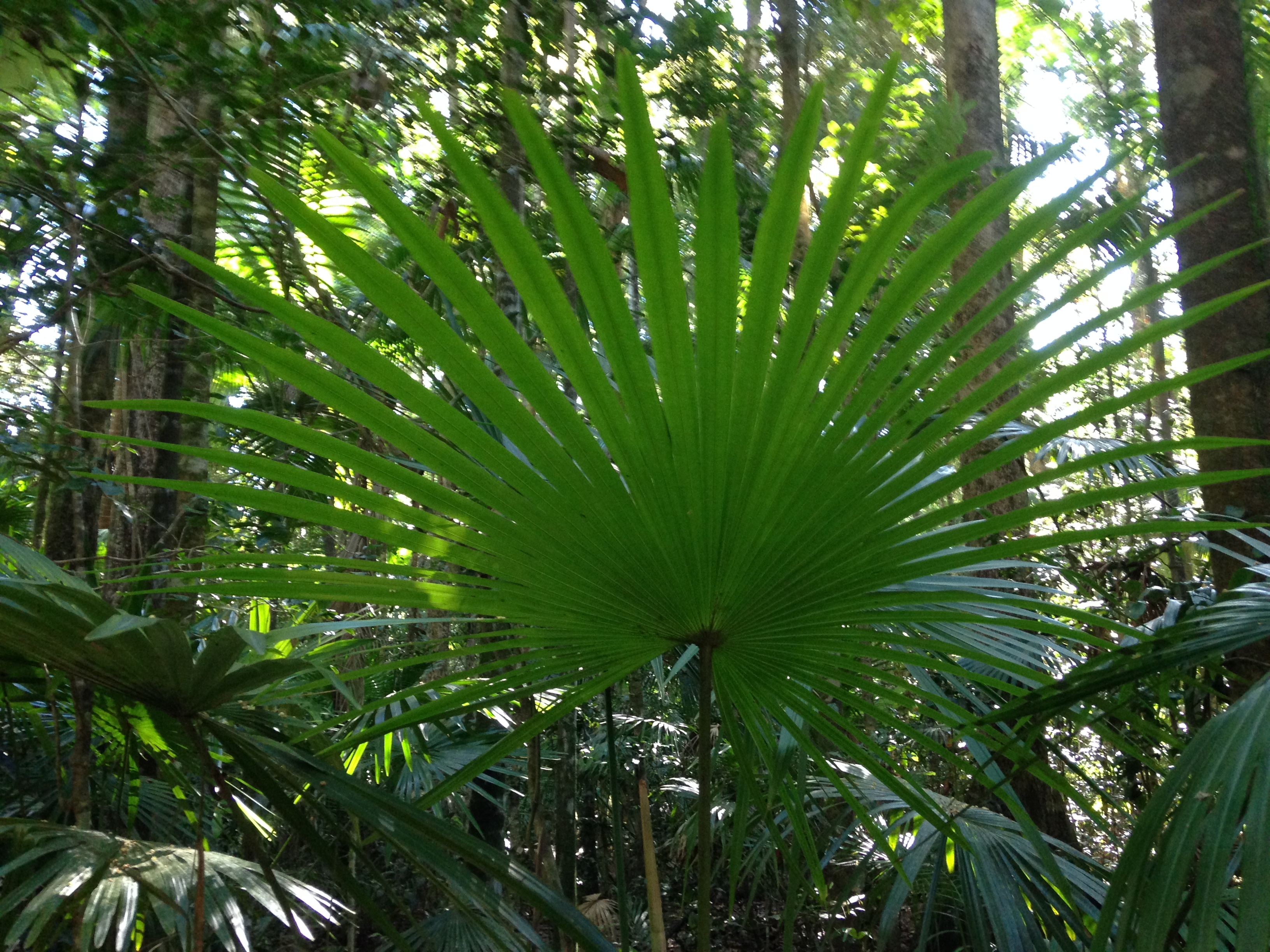 A fan palm in the rainforest on the Rainforest Discovery Track, Eungella National Park